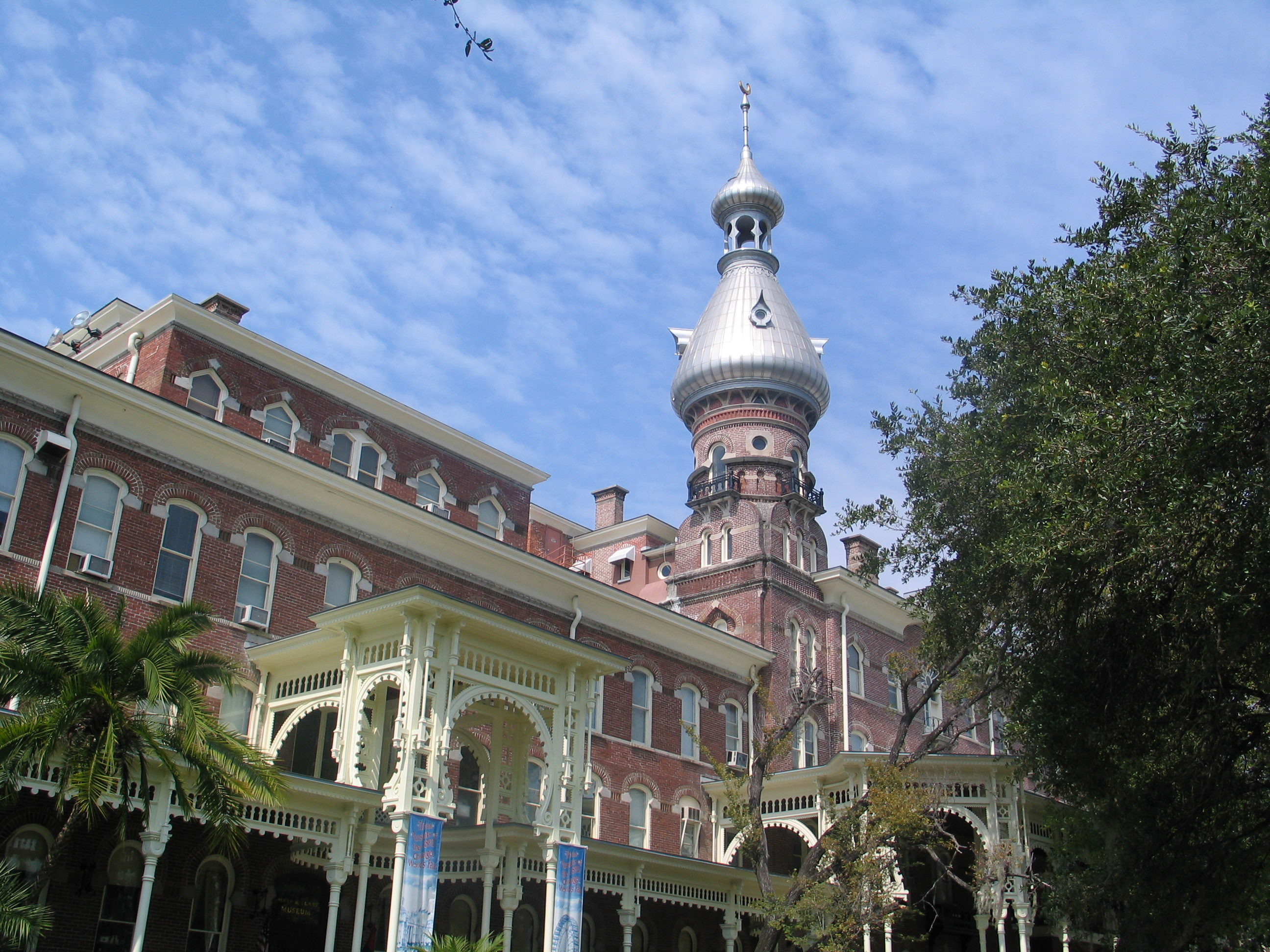 Taken and uploaded by AndonicO.